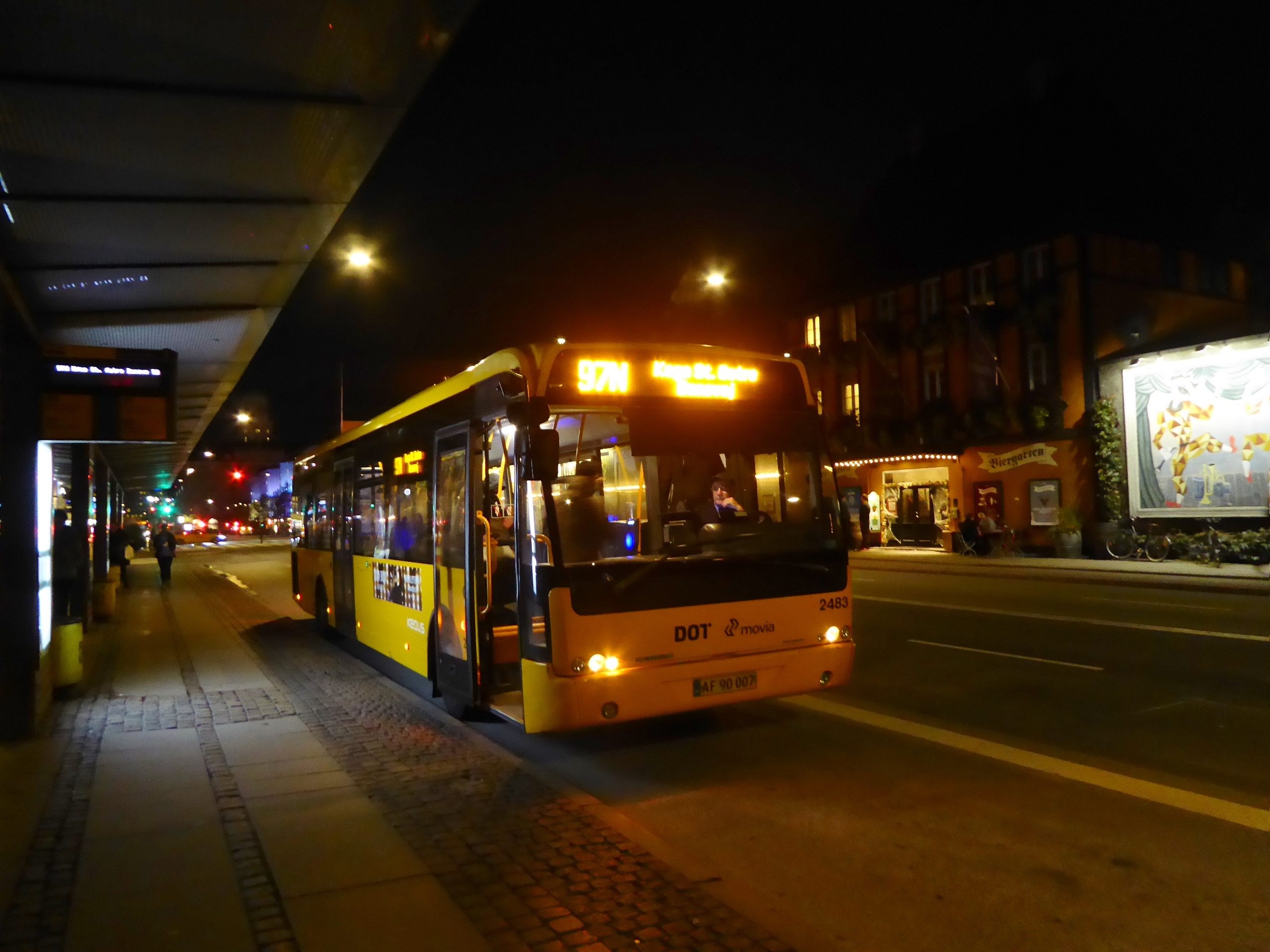 Movia bus line 97N on Bernstorffsgade at Københavns Hovedbanegård (Copenhagen Central Station). Movia only has seven night lines like this left because the other has been replaced by either trains or bus lines running around the clock.